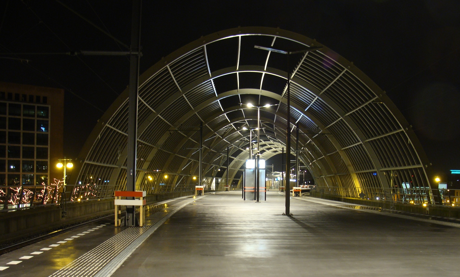 Platforms 9 and 10 of Amsterdam Sloterdijk station by night. Construction has not yet been finished completely.